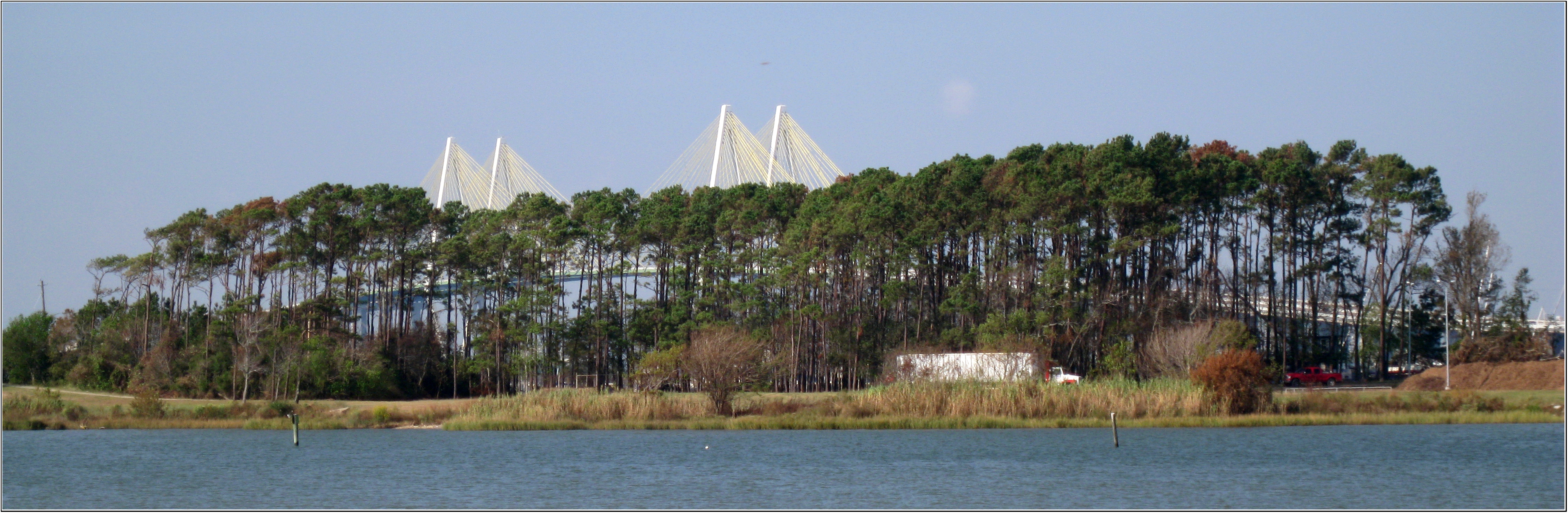 Bayland Park in Baytown Texas with the Fred Hartman Bridge behind it.